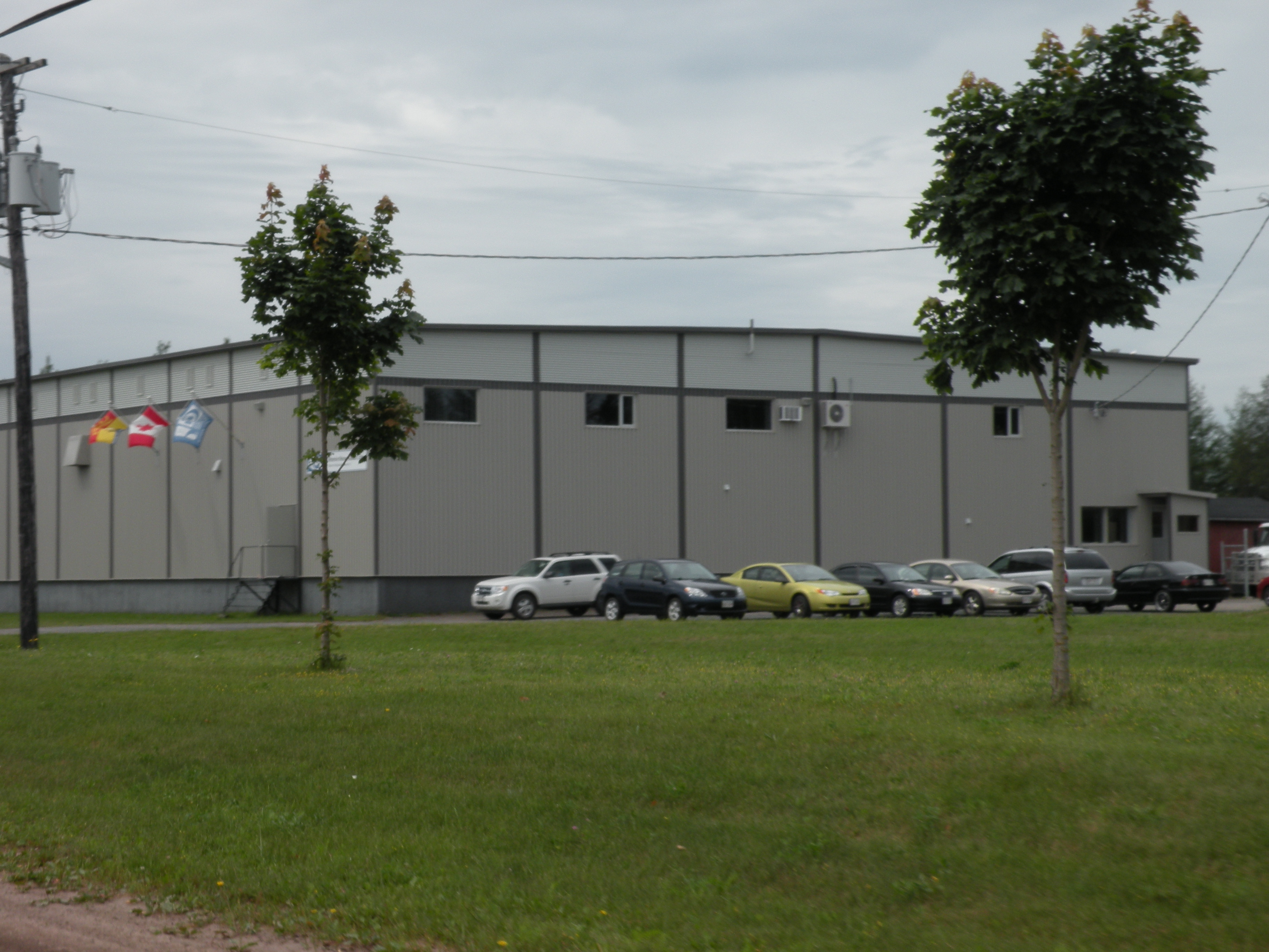 A glass factory in Shippagan, New Brunswick, Canada